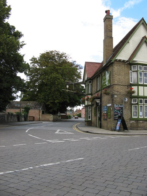 The Fountain Public House On the corner of Fountain Lane.